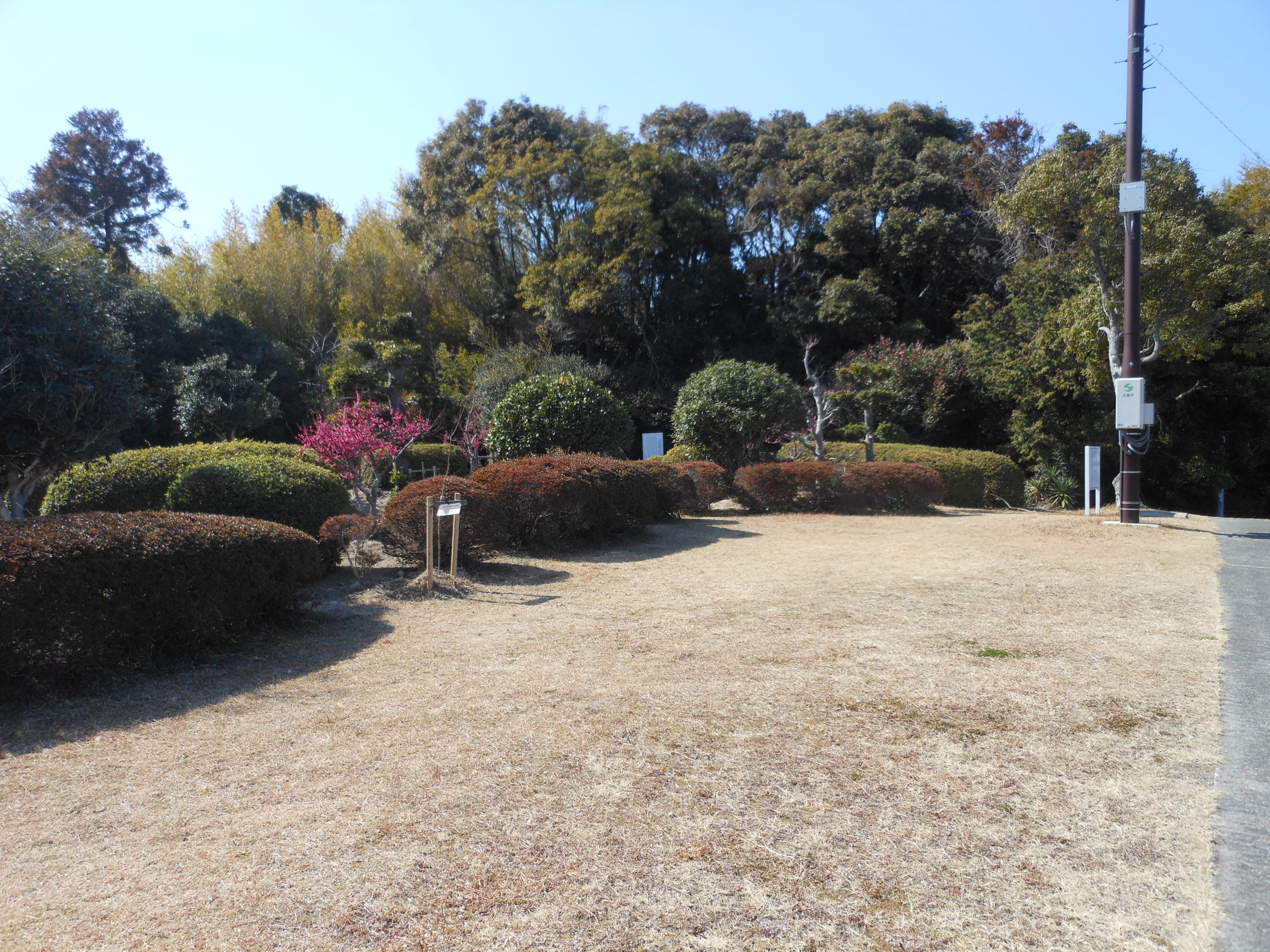 This is the Minna-no-Mori or Forest for Everyone in Shiima, Mie, Japan. Here was the Matoya elementary and Lower secondary school.